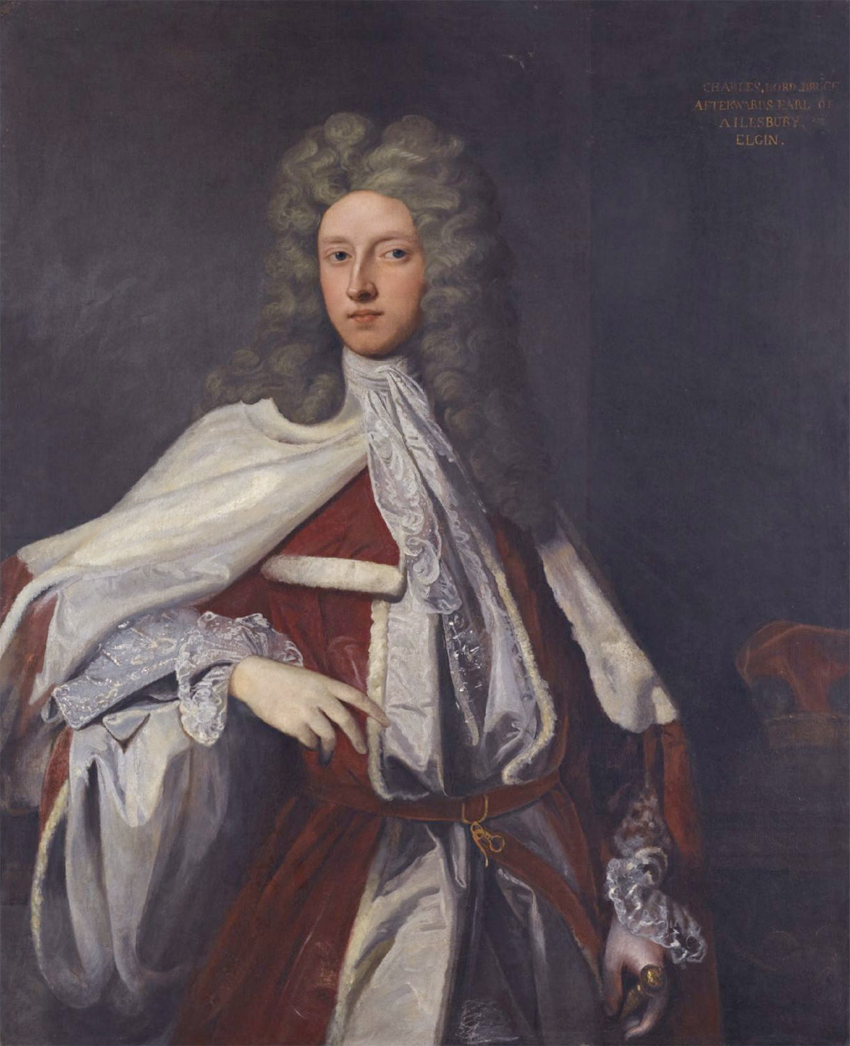 A portrait of Charles Bruce, 4th Earl of Elgin (1682–1747).